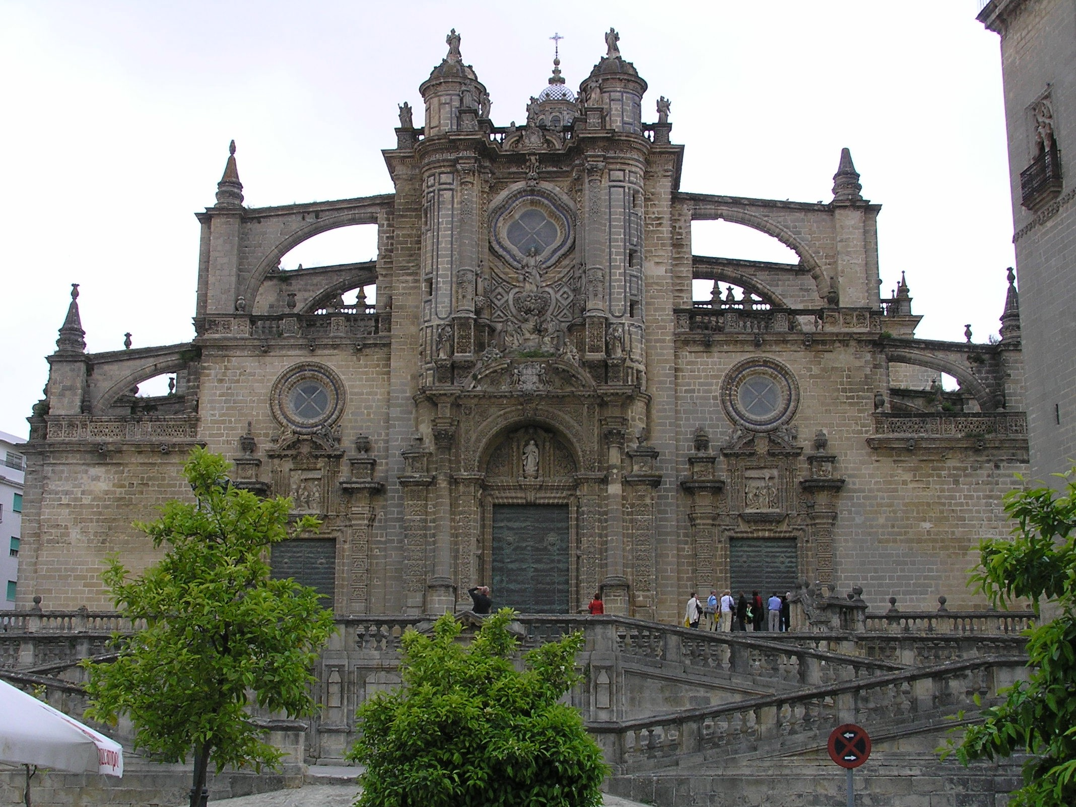 Description: Catedral de Jerez de la Frontera - Kathedrale von Jerez Source: selbst fotografiert - photograph taken by the author Date: 18.Apr.2005 17:23 Author: Waugsberg